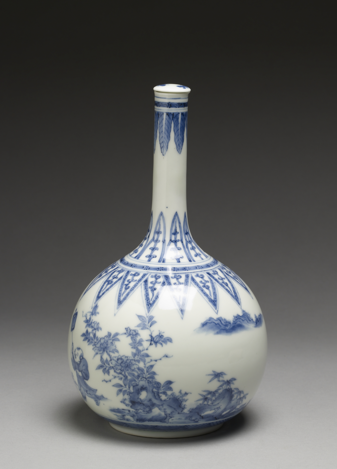 This Hirado ware vase depicts Chinese children chasing a butterfly.